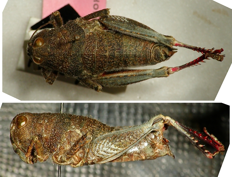 Brachaspis robustus - Type